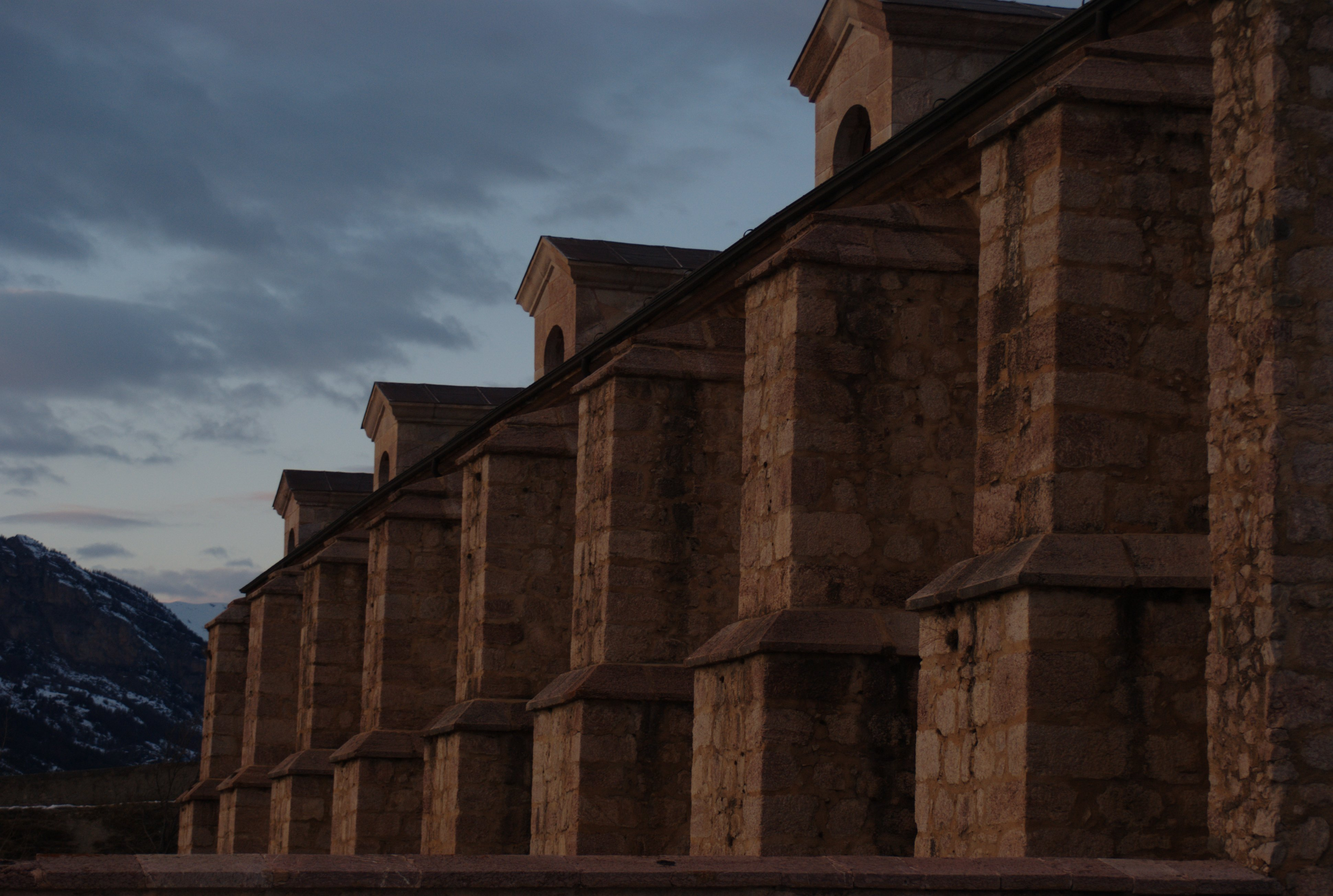 Arsenal of Vauban fort in Mont-Dauphin